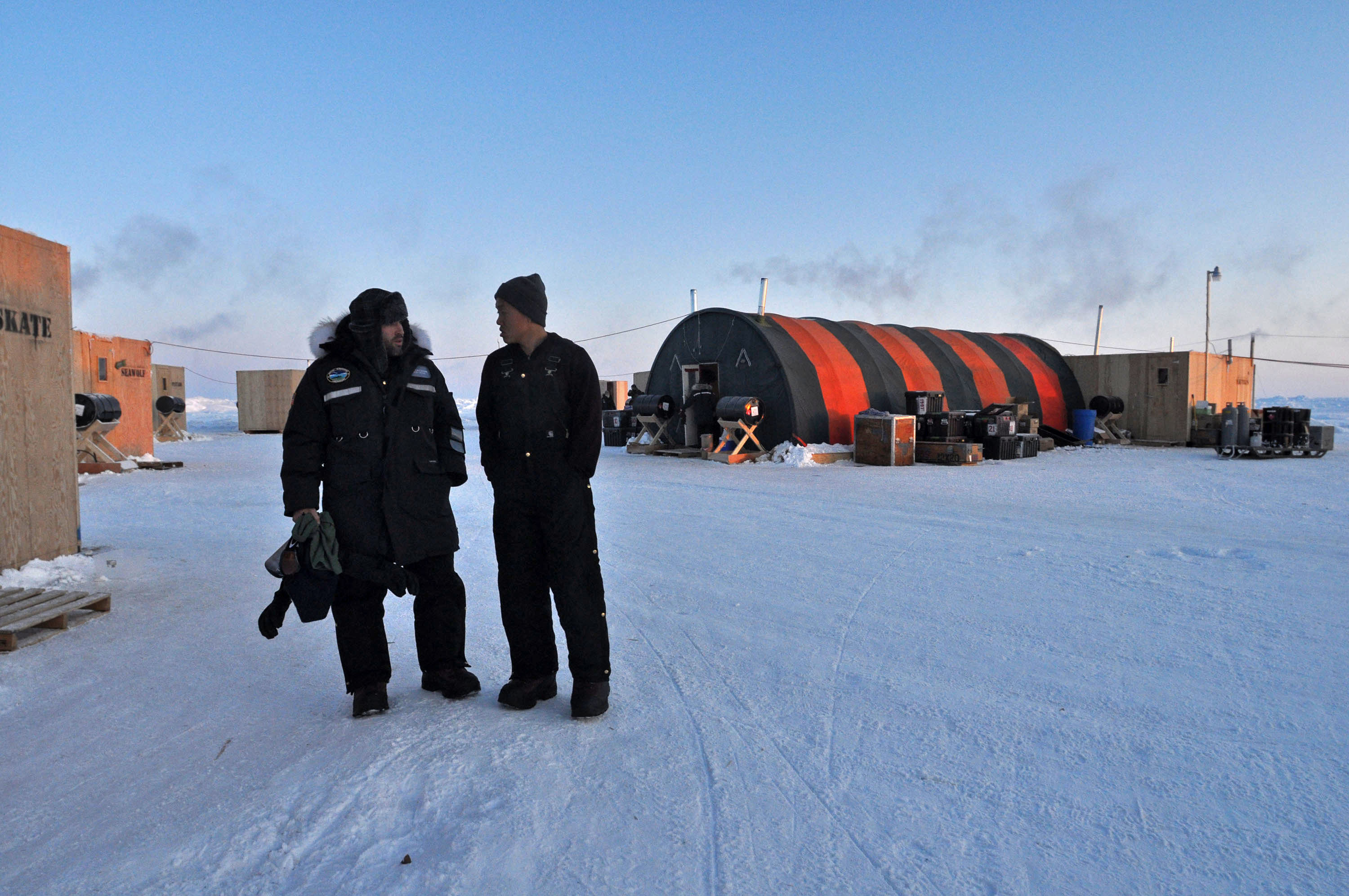 ARCTIC OCEAN (March 21, 2009) Lt. Roger Callahan speaks with camp medic Lt. Huy Phun about cold weather safety gear at the Applied Physics Lab Ice Station camp in the Arctic Ocean. Two Los Angeles-class submarines, USS Helena (SSN 725) and USS Annapolis (SSN 760), will participate in the exercise with researchers from the University of Washington Applied Physics Laboratory and personnel from the Navy Arctic Submarine Laboratory. (U.S. Navy photo by Mass Communication Specialist 1st Class Tiffini M. Jones/Released)